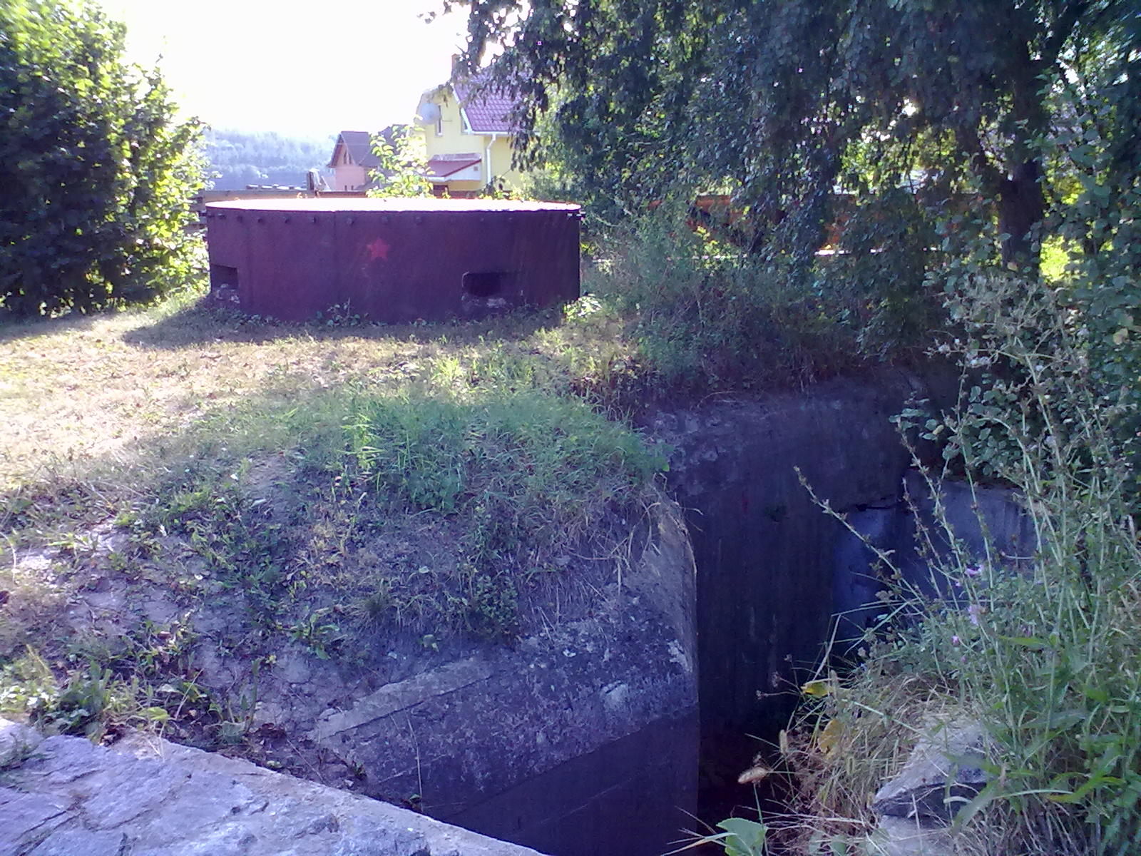 Pillbox 131 (Kiev Fortified Region) in Kremenische. View from the back-side.